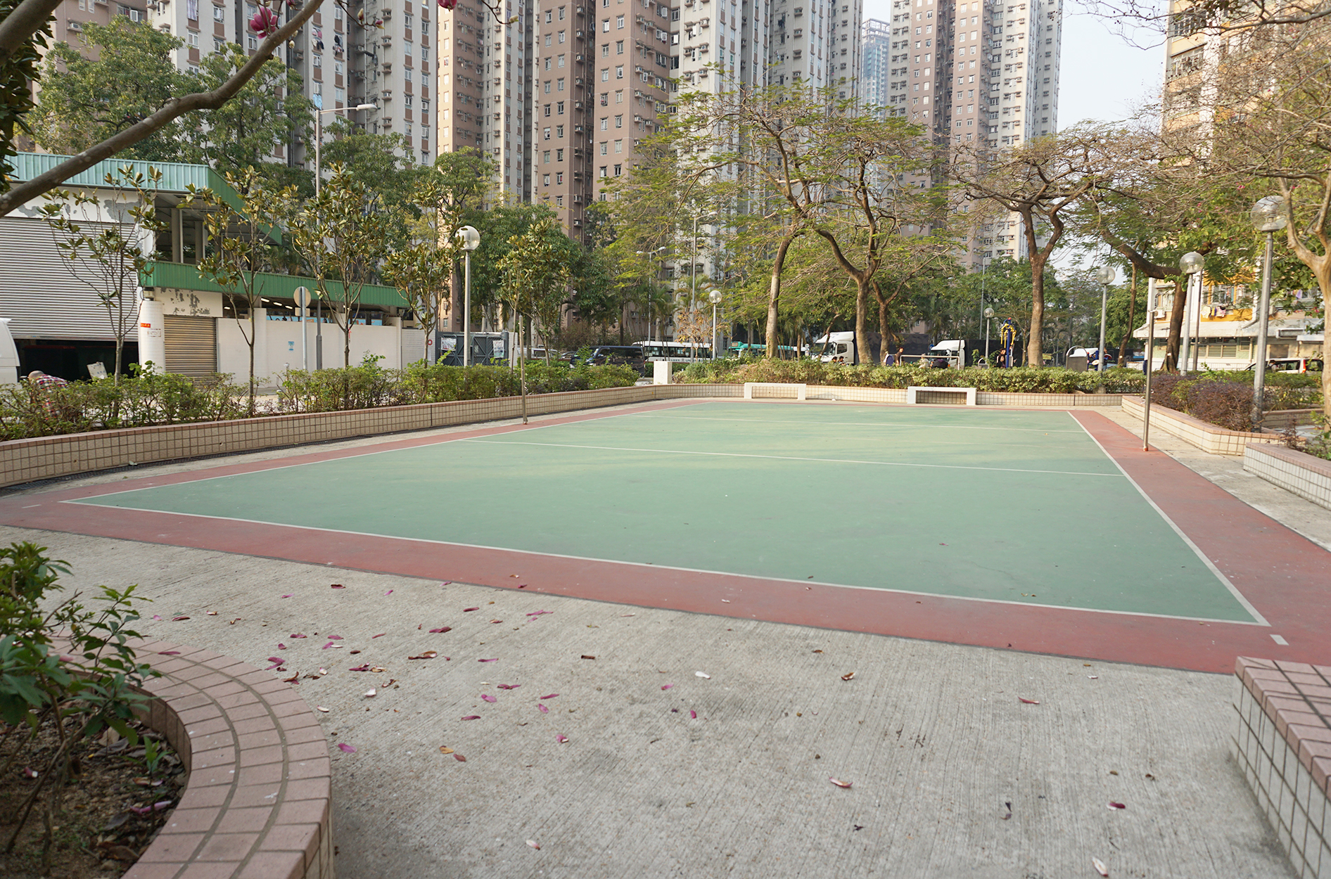 Lung Hang Estate in Tai Wai, Hong Kong.